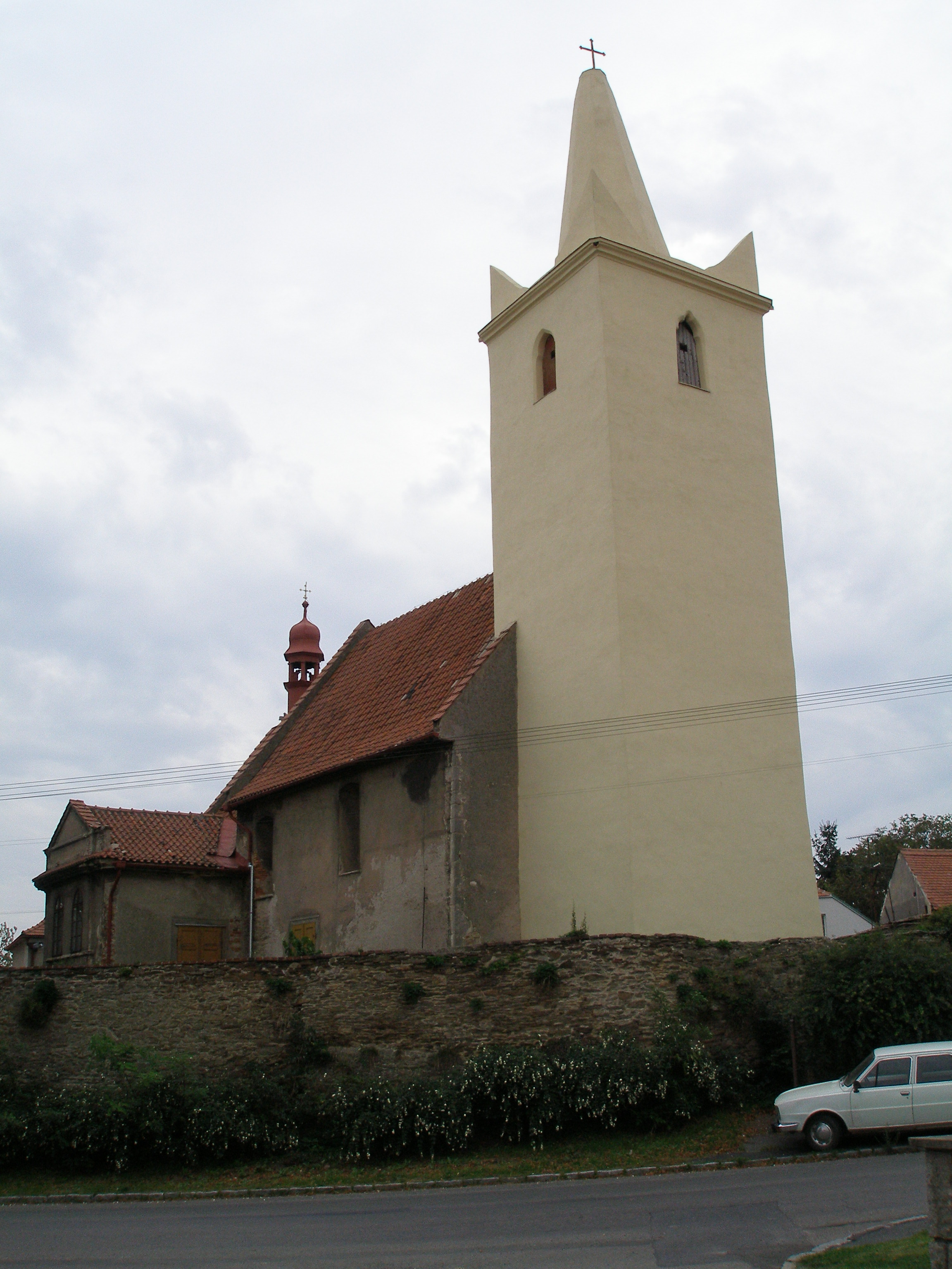 Church in Červené Pečky